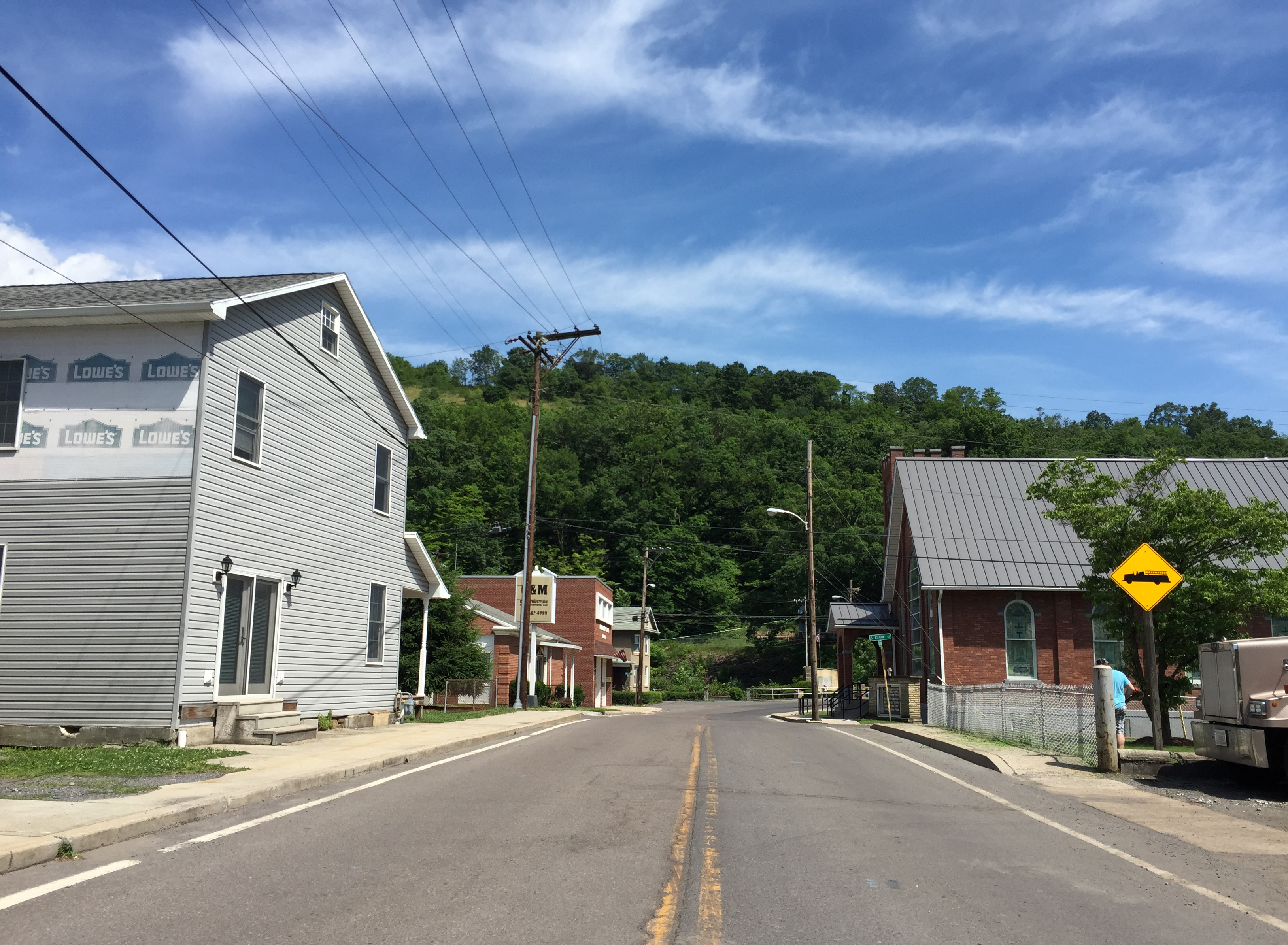 View north along Maryland State Route 935 (Legislative Road) between Railroad Street and Eutaw Street in Barton, Allegany County, Maryland